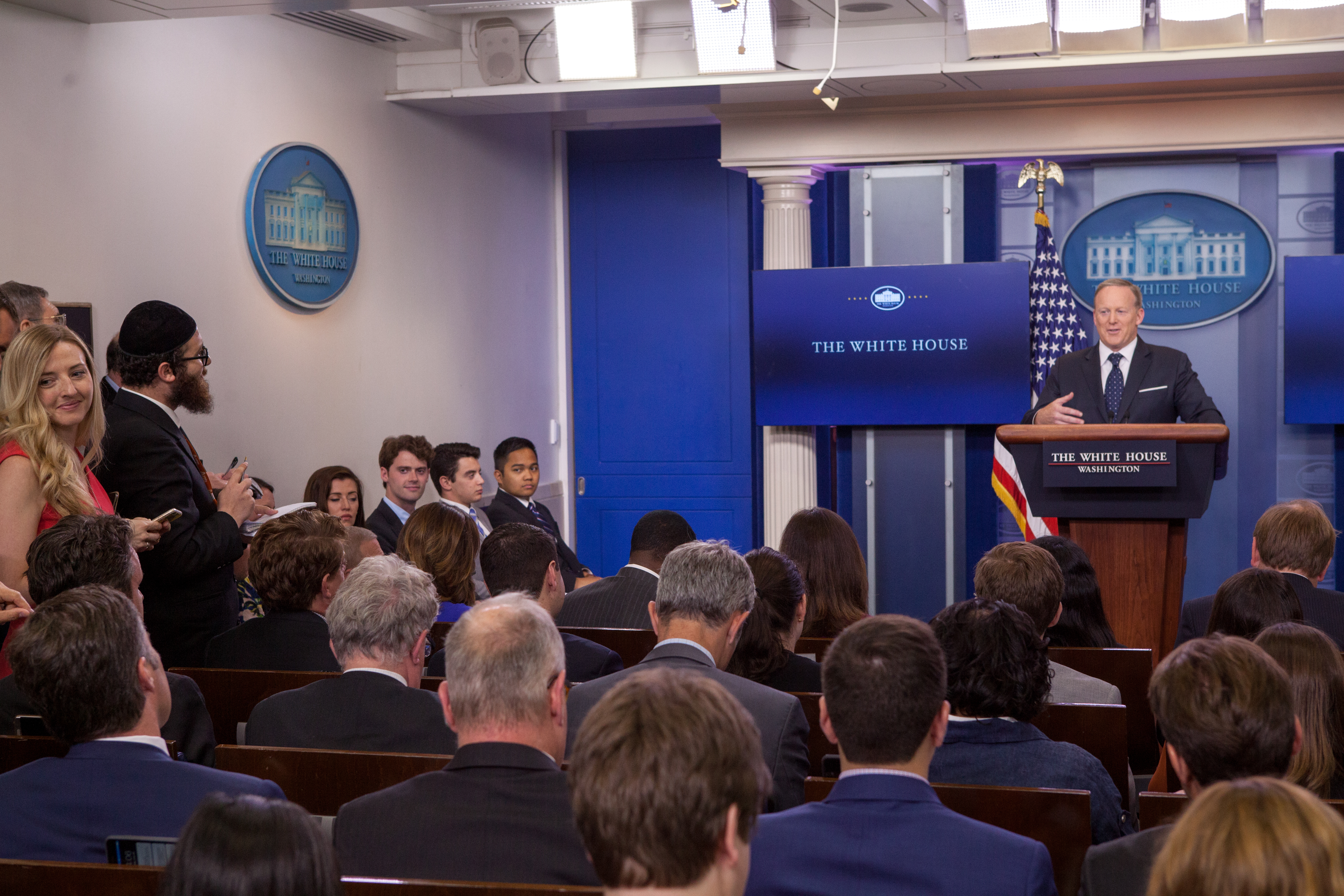 Jake Turx and Sean Spicer at a White House press briefing.